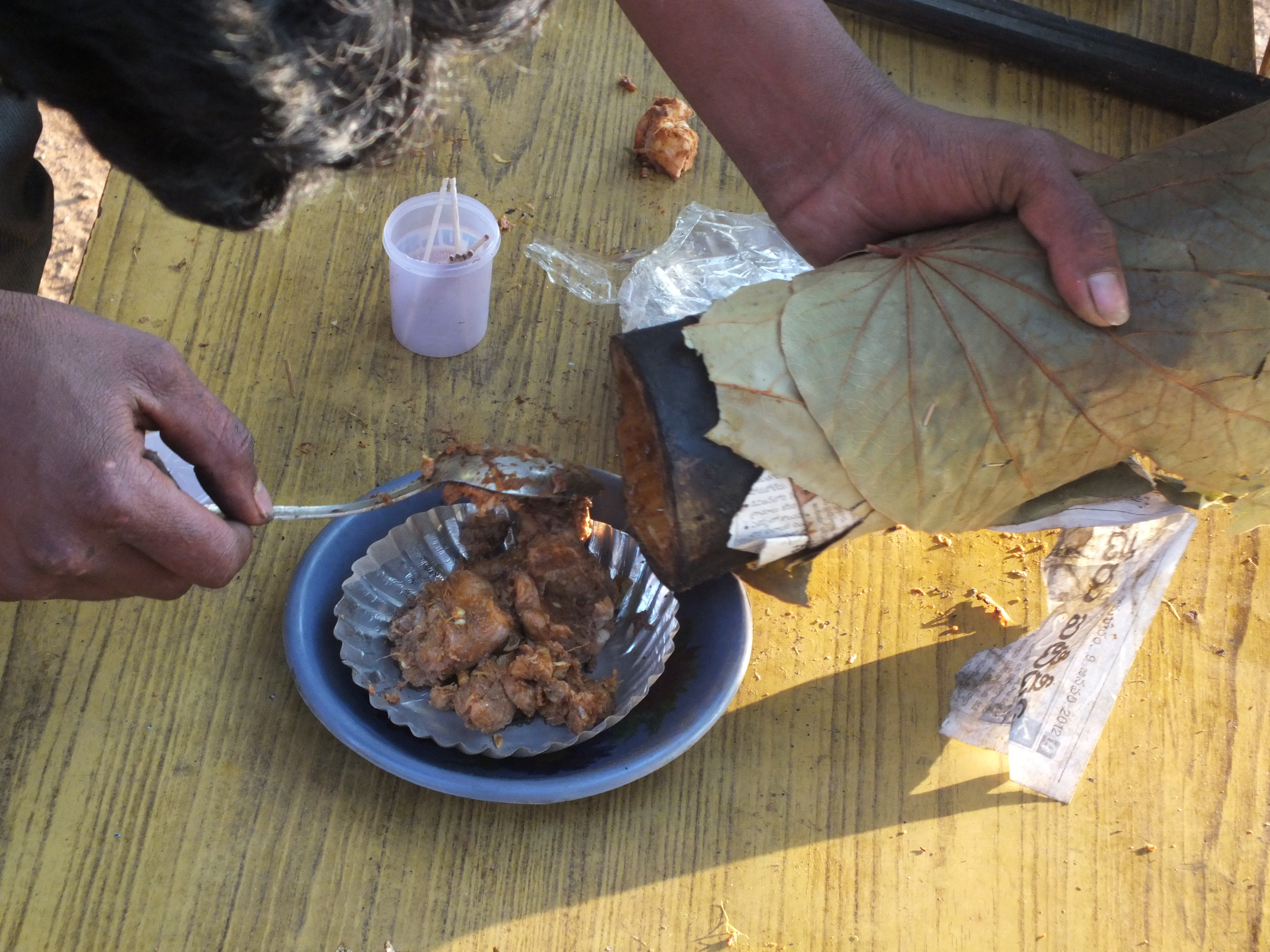 Scooping chicken morsels out from the bamboo stem, in which they have been cooked. - Araku Valley, Andhra Pradesh.